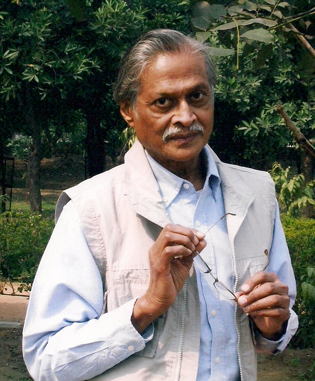 Jagannath Prasad Das is an Odia and English-language author, translator, researcher, cultural scholar and was working in Indian Administrative Service.